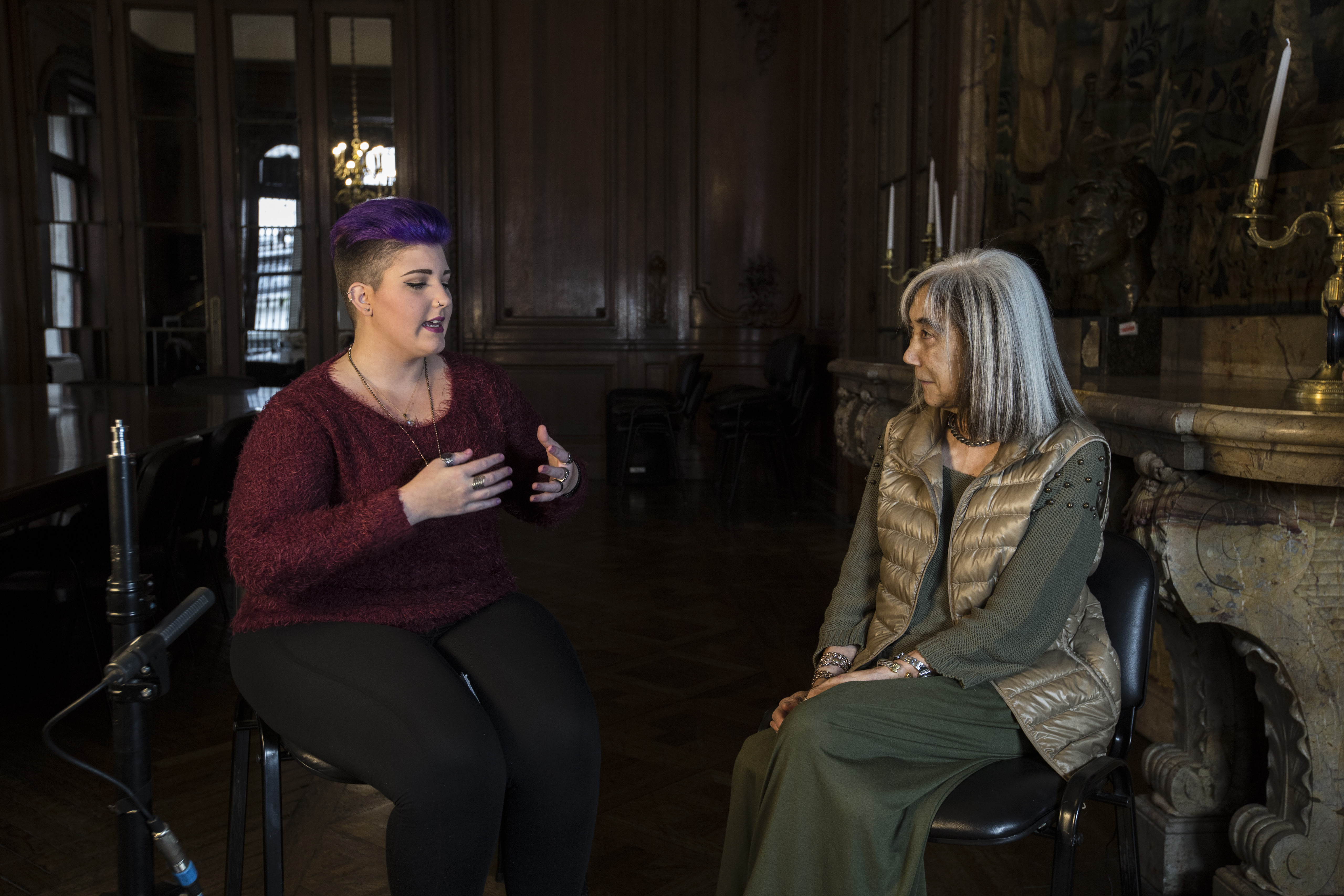 Juli Ferraro is a booktuber, and this picture shows her interviewing Maria Kodama, widow of Jorge Luis Borges. to post on Youtube. The video was about Jorge Luis Borges' works in celebration of Reader's Day.